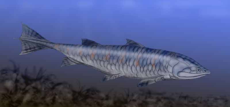 Grossius aragonensis, a sarcopterygian fish from the Middle or Late Devonian of Spain, after Schultze (1973) and Janvier (1996), digital